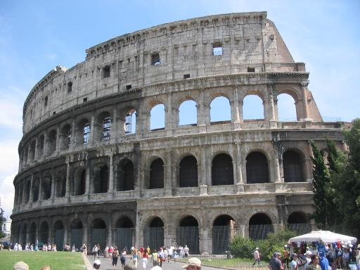 Modern day picture of Roman Colosseum. In Roman times, the amphitheater was called the Flavian amphitheater after the Emperor Titus Flavius Vespasianus's middle name.